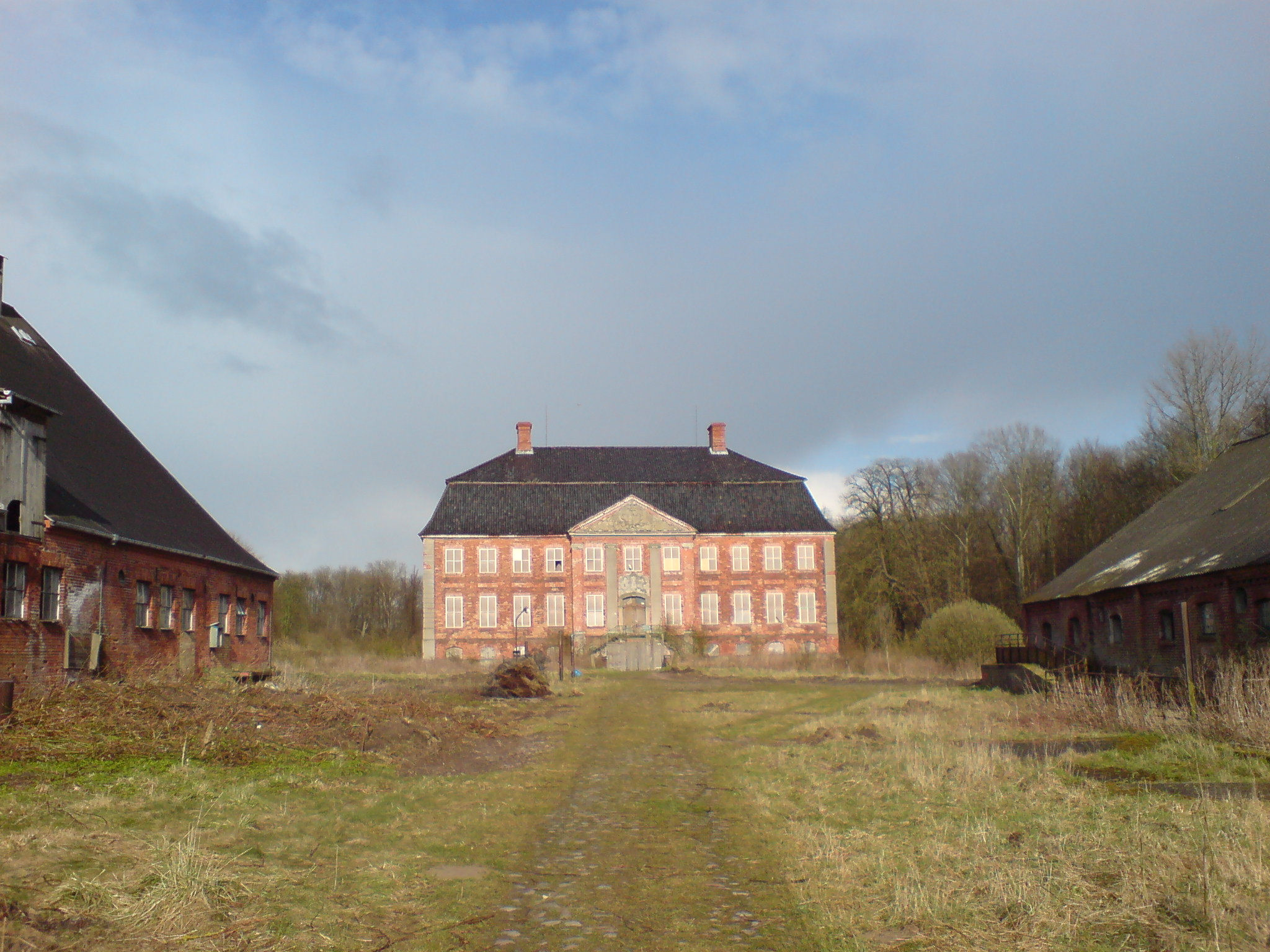 The Court of Johannstorf Manor